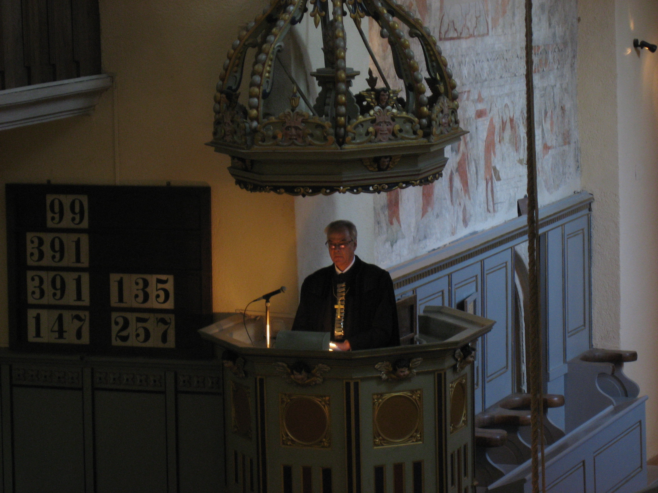 bishop Christoph Michael Klein of the Lutheran church A.B. of Romania, at Cisnadie (Heltau), 2009